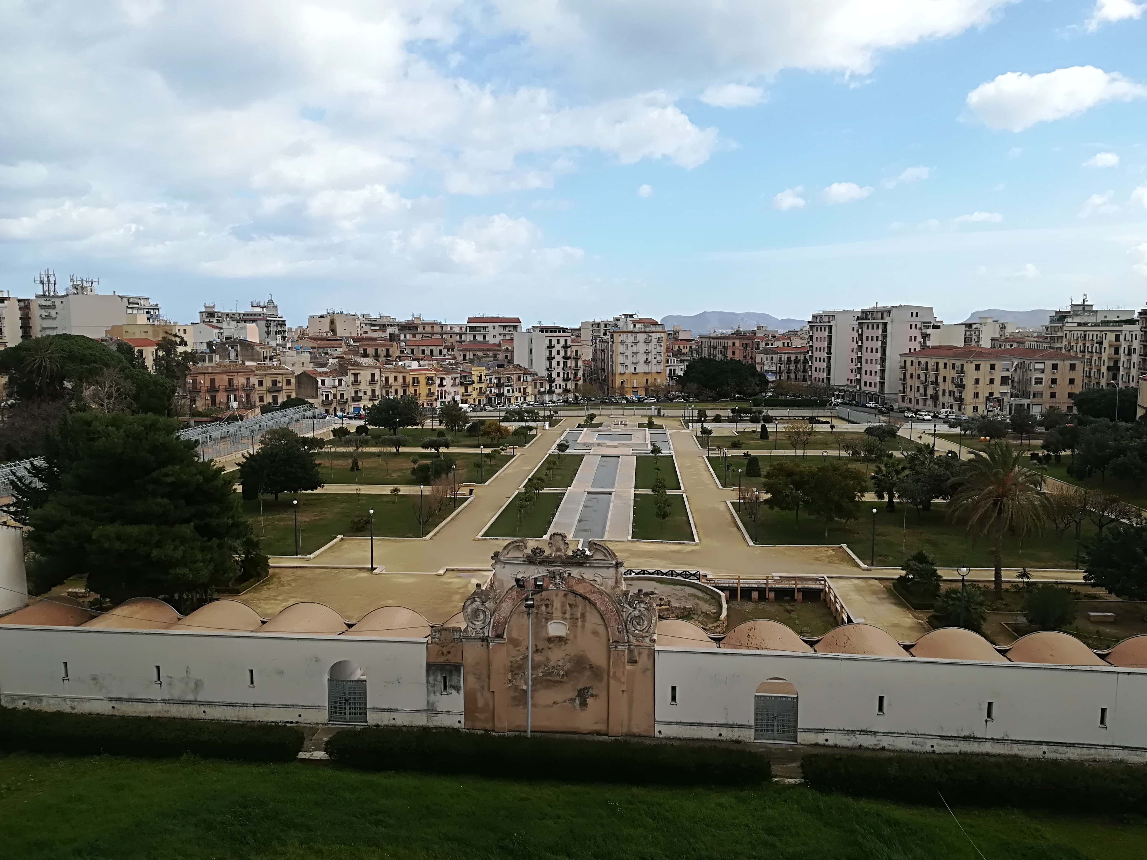 Casttle of Zisa with garden and fontain, Palermo, Sicily